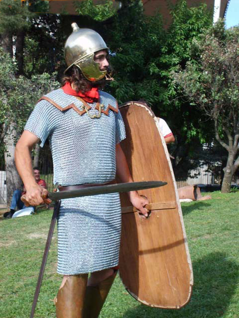 Ibercalafell soldier